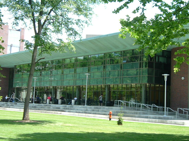 Picture of Ekstrom Library addition. Taken by Jeffrey B. Morris and uploaded on June 7, 2006, the year of the dog. All rights released.